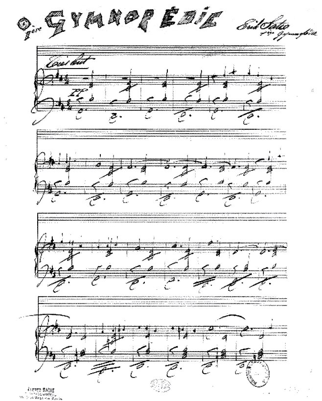 Low resolution image of first page of Satie's manuscript for the "Gymnopedies"